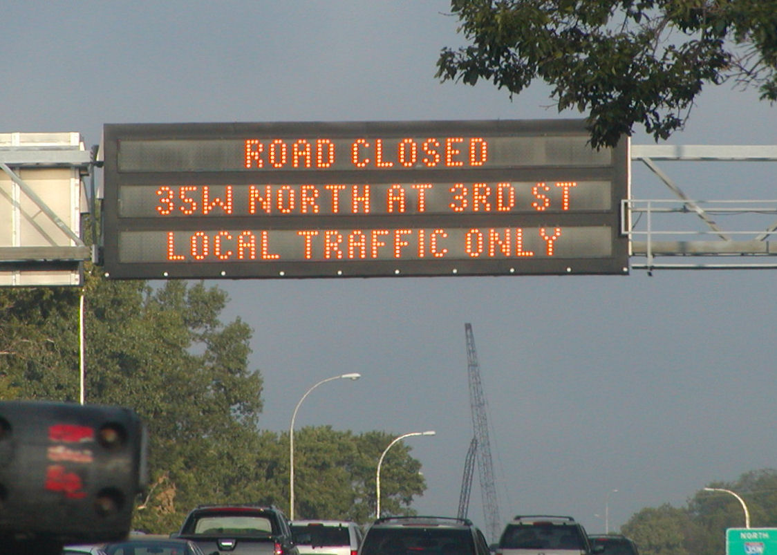 taken by William Wesen, August 2007 - released to the public domain